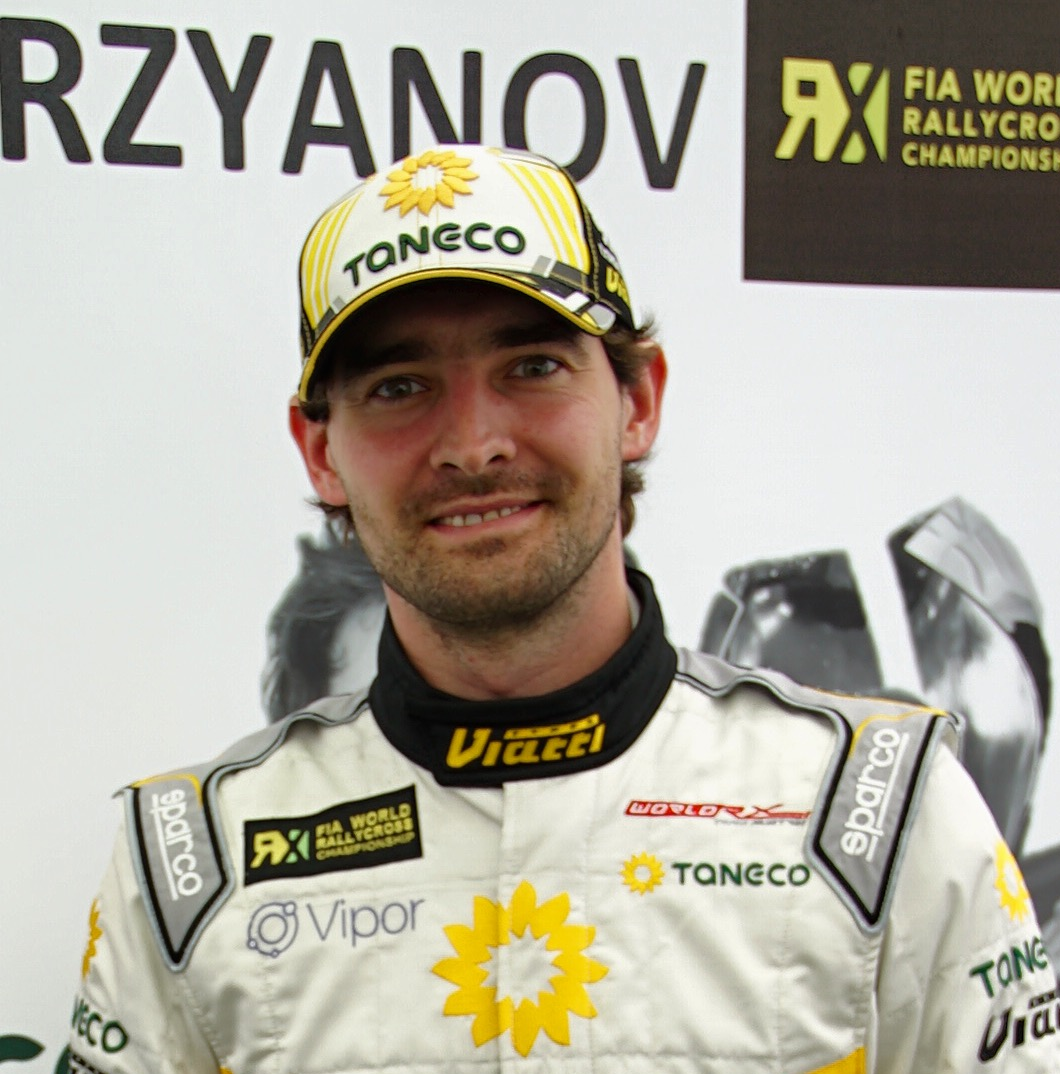 Timur Timerzyanov, Lohéac, France, 2016